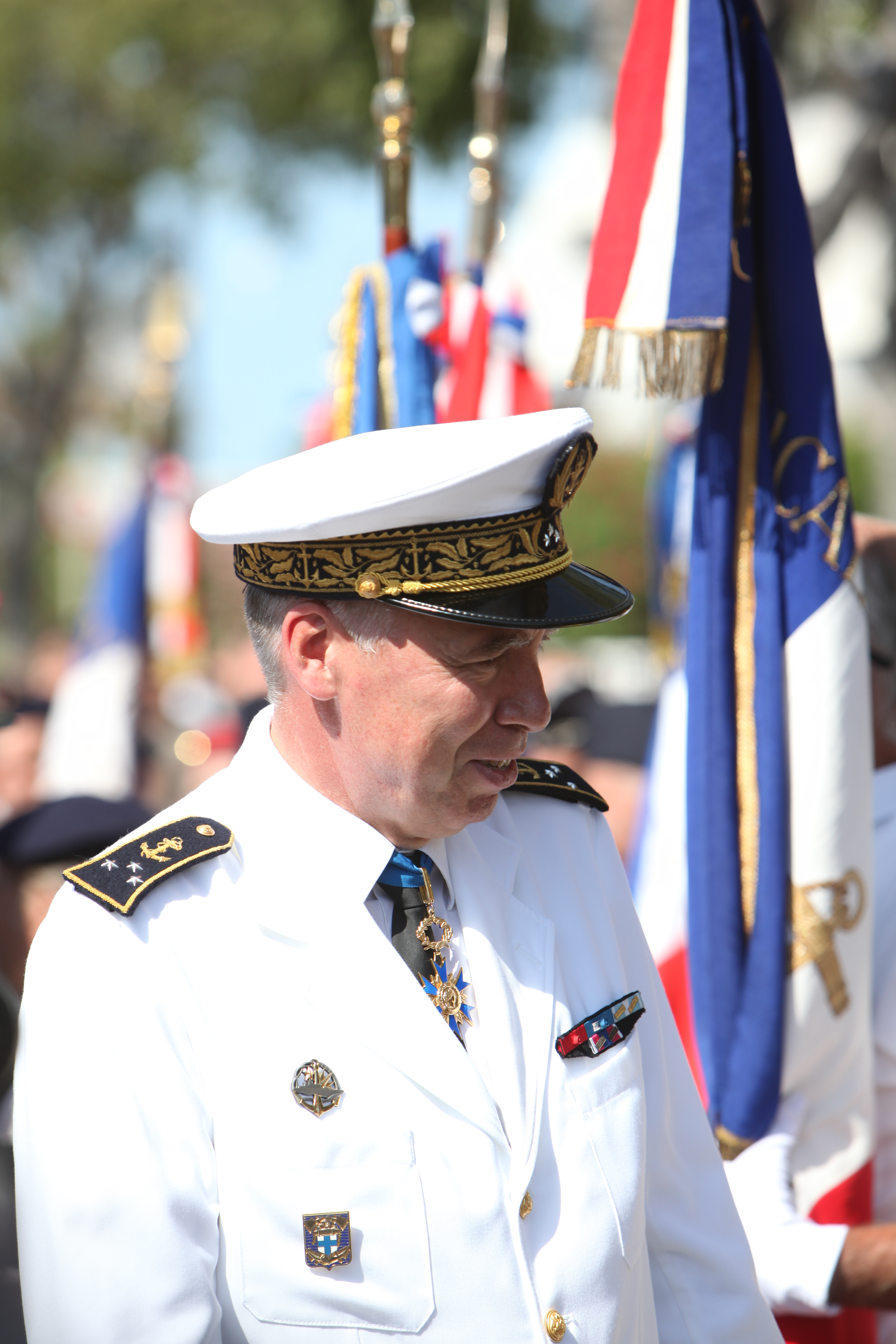 Vice-Admiral Jean-Michel L’Hénaff at the ceremonies for the 14th of July 2012 in Marseille.